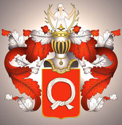 Coat of Arms of Rachinsky family